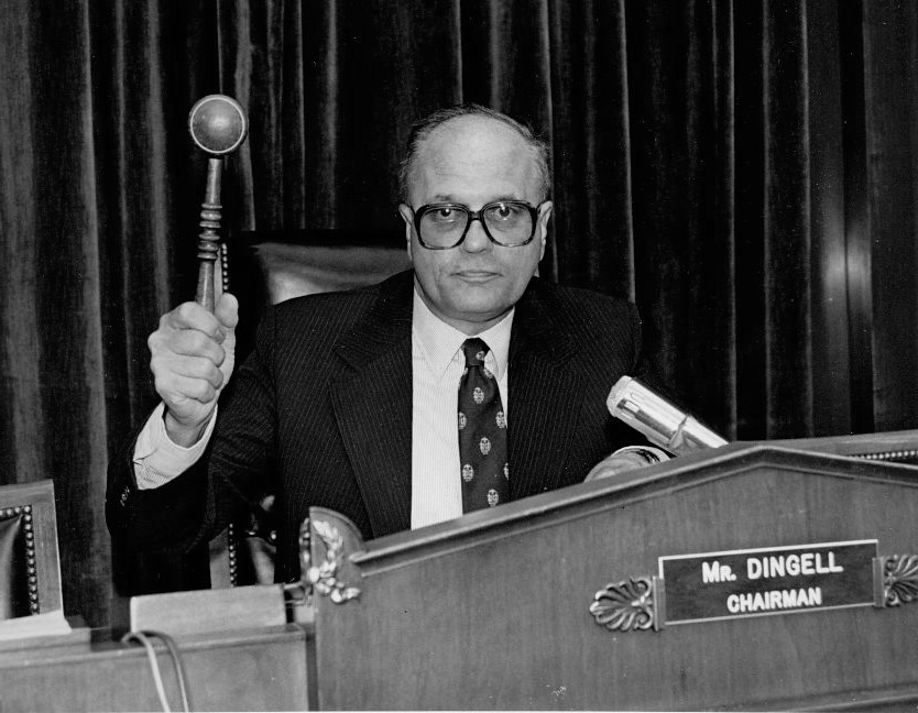 U.S. Rep. John Dingell with gavel as chairman of an unspecified committee